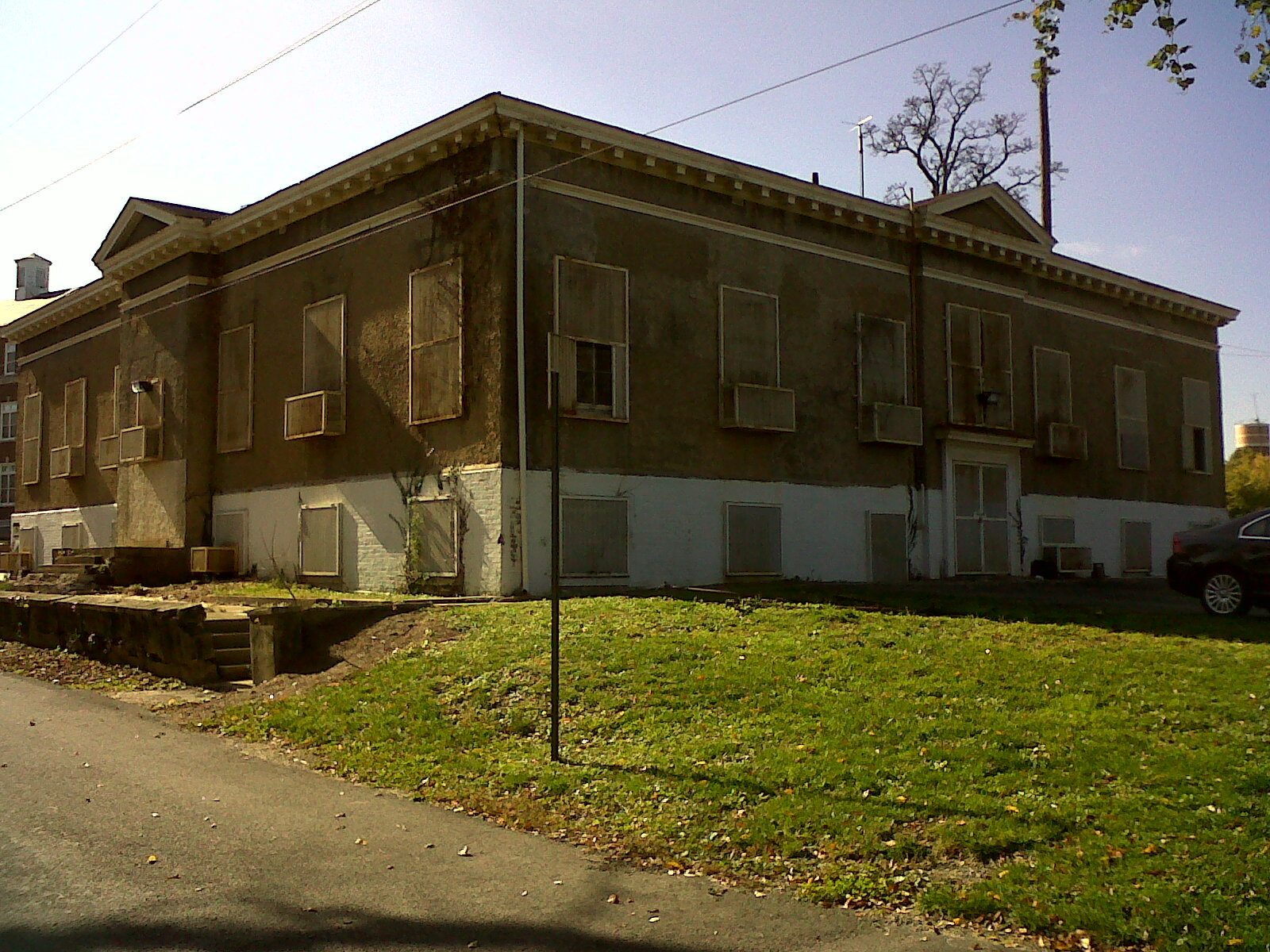 The Jesse Reno School is located at 4820 Howard St., NW, Washington, DC. It is listed on the National Register of Historic Places.